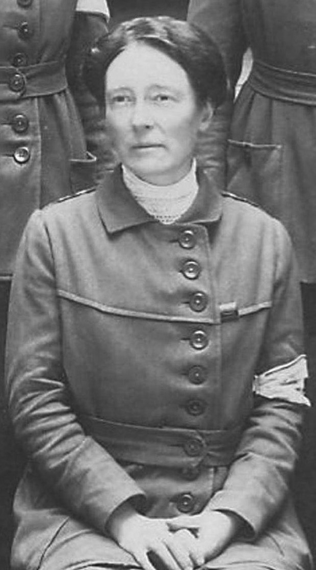 Portrait of Louisa Anderson